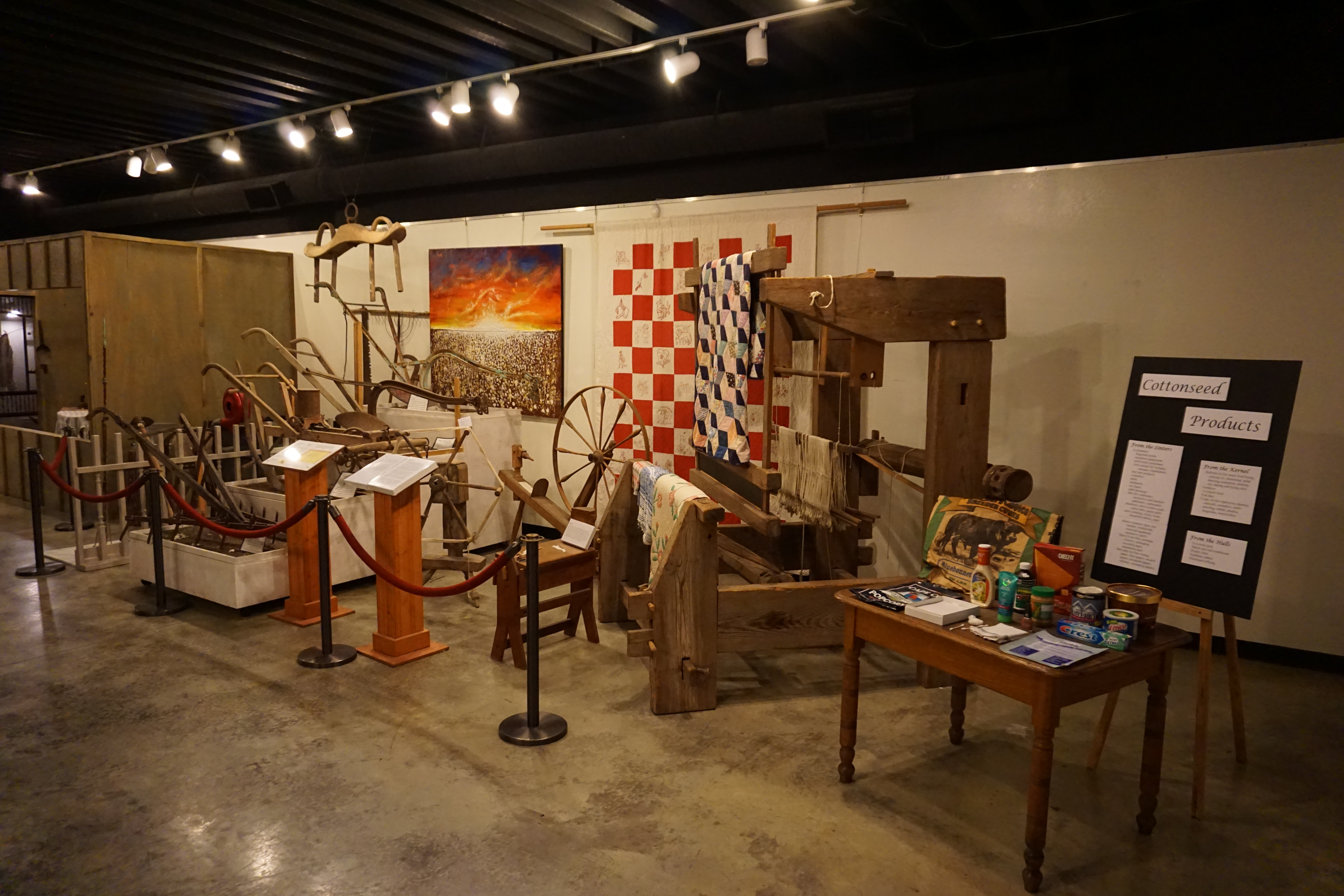 The Hunt County cotton exhibit at the Audie Murphy American Cotton Museum in Greenville, Texas (United States).